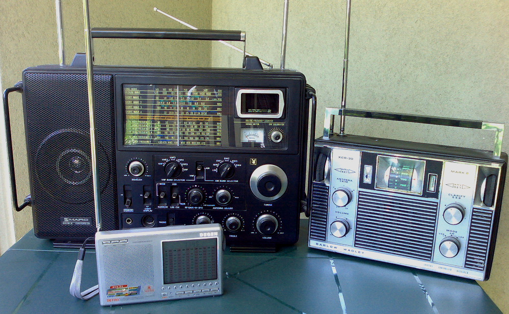 Three portable shortwave receivers